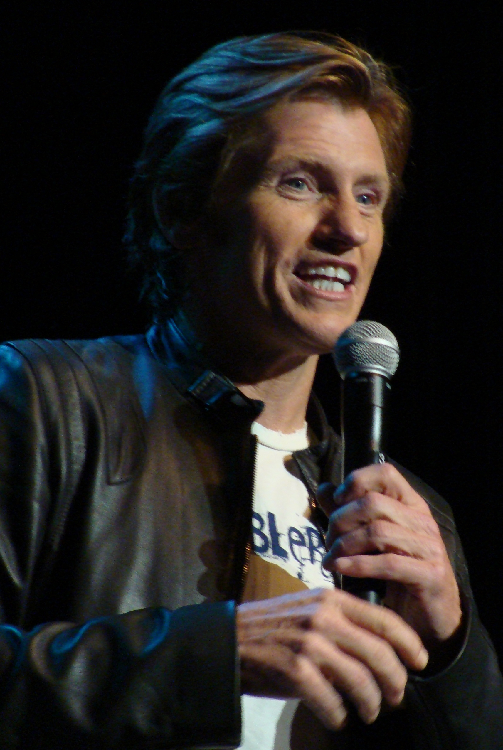 Denis Leary performing at the State Theater in Minneapolis, Minnesota in June 2010.